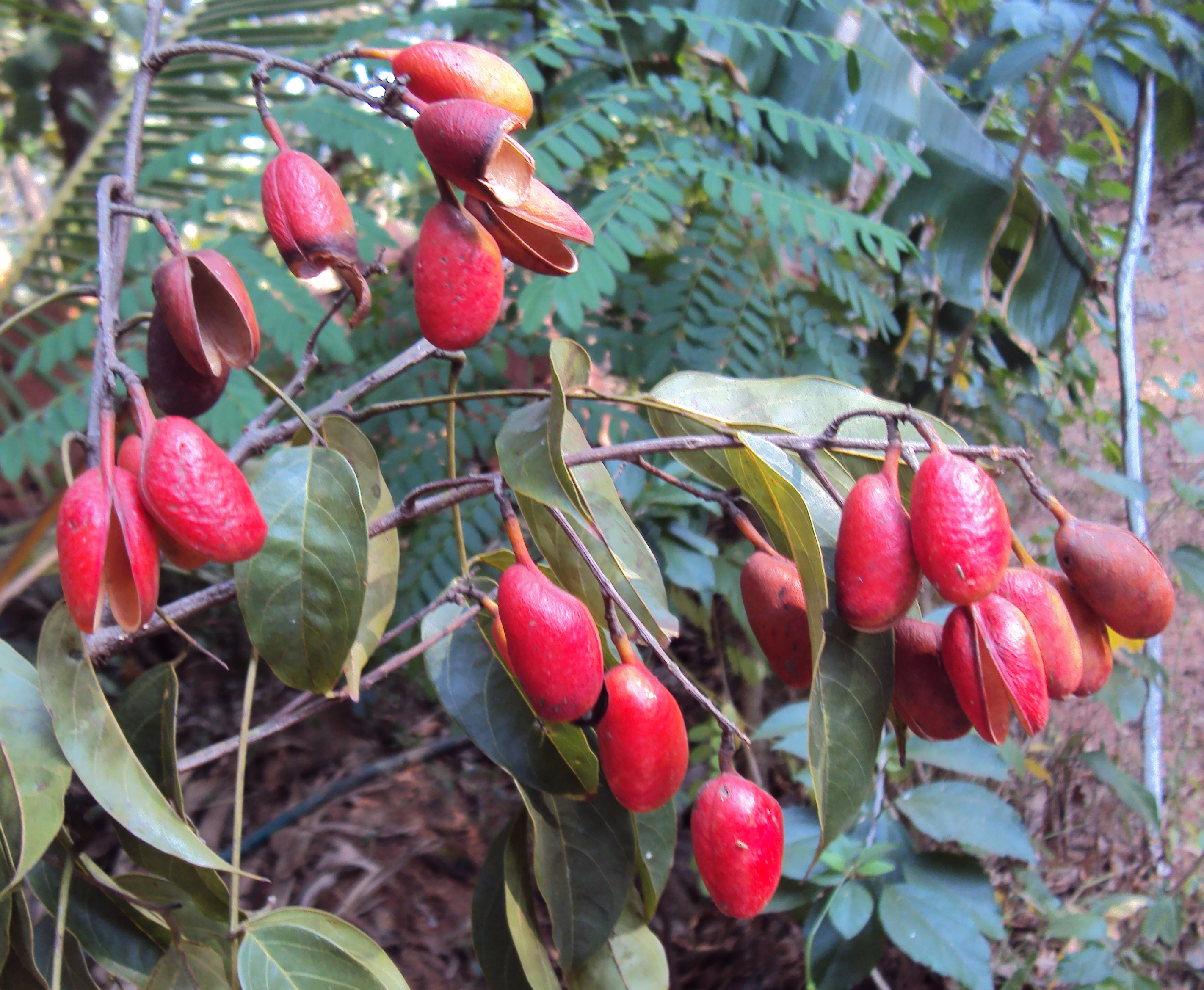 Connarus paniculatus